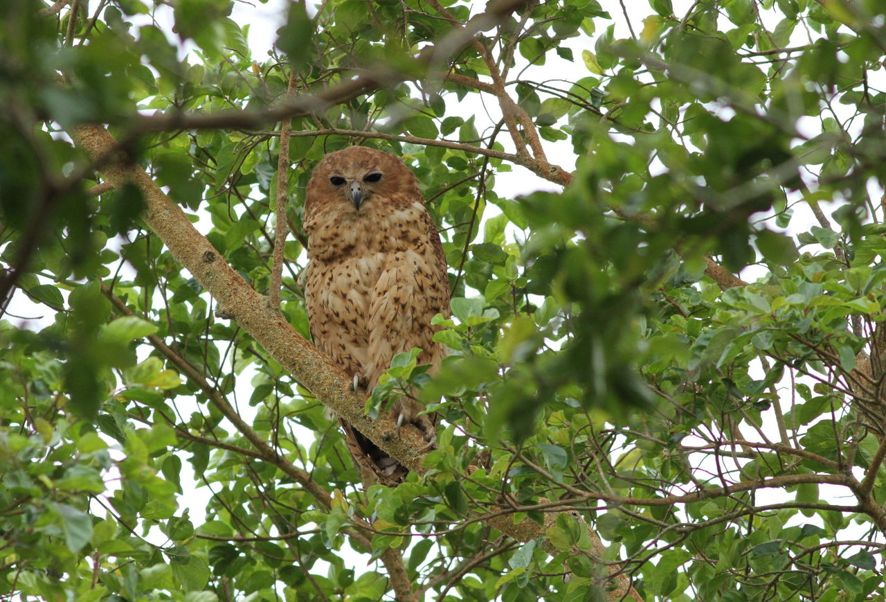 Pel's fishing owl, Scotopelia pel, at uMkhuze Game Reserve, kwaZulu-Natal, South Africa